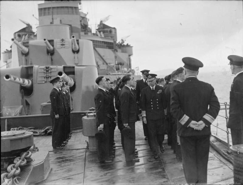 IWM caption : HM King George VI, wearing the uniform of an Admiral of the Fleet, inspecting the personnel of HMS GLASGOW at Scapa Flow as part of a four day visit to the Home Fleet. The two forward 6 inch gun turrets of HMS GLASGOW can be seen behind the personnel being inspected.